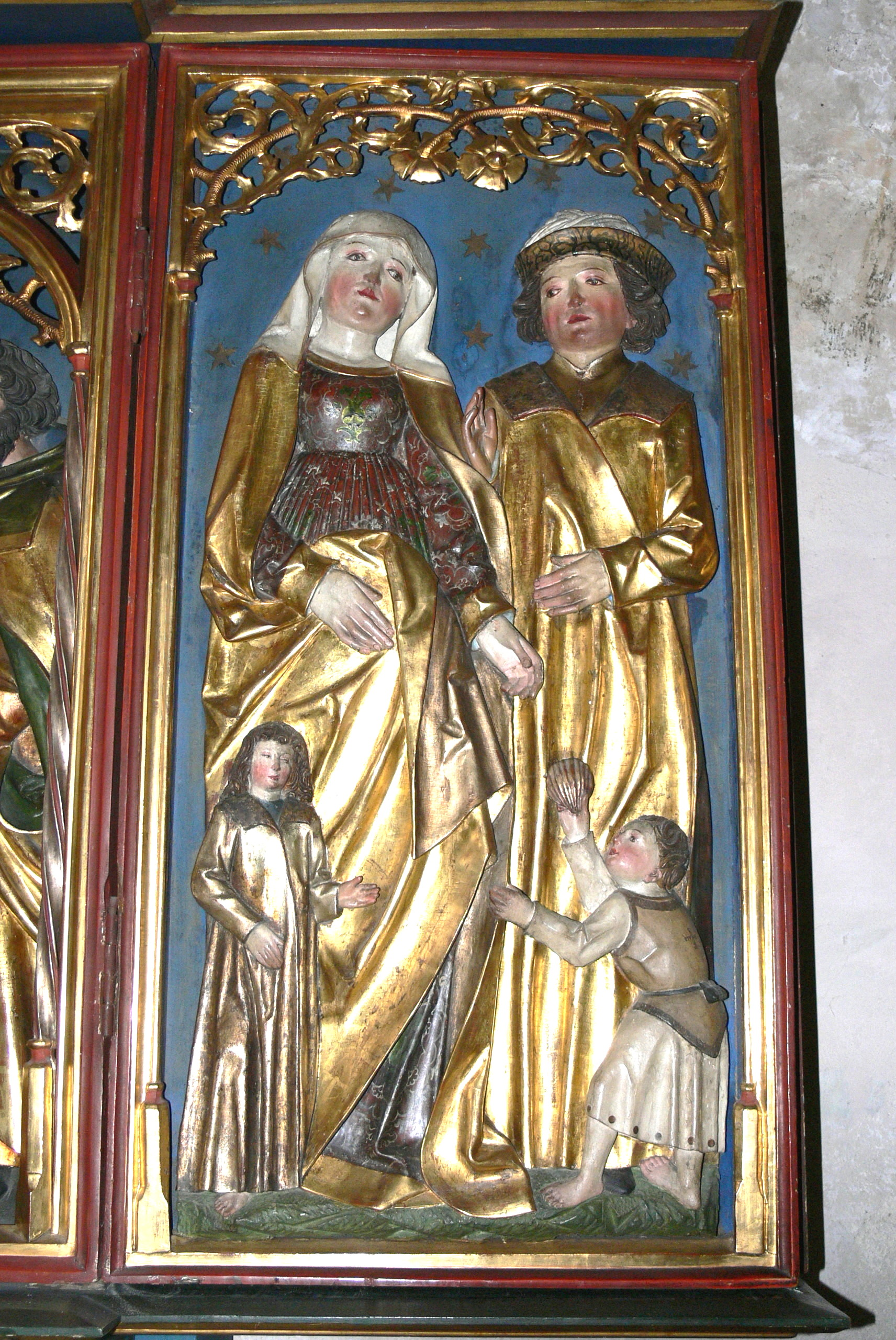 Langenzenn ( Bavaria / Frankonia ). City church - Altar of the Holy Kinship ( 1508 ). Zebedaeus and his wife Maria Salome with their children Saint John the Evangelist and Saint James the Greater.